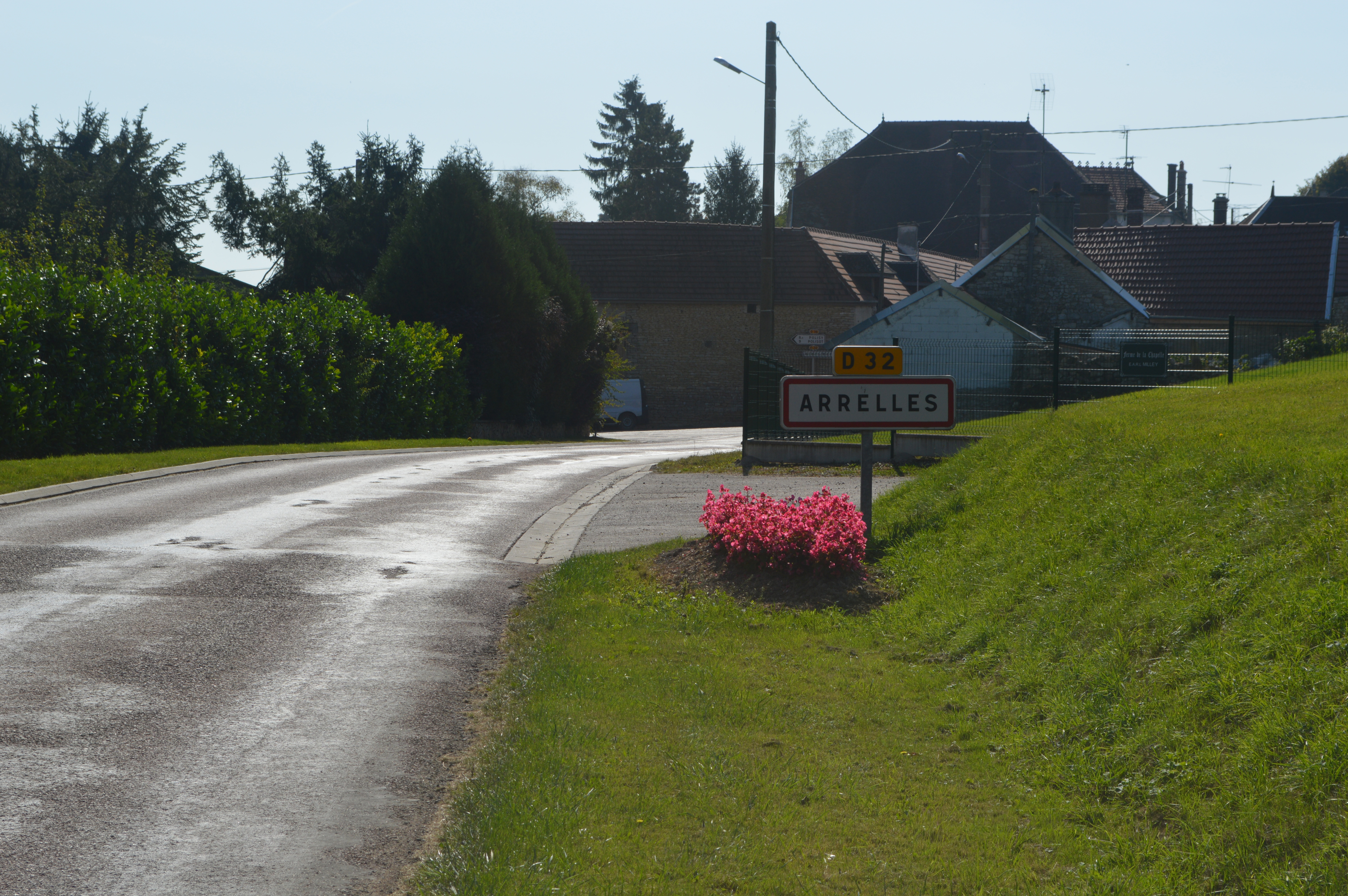 The entry to Arrelles